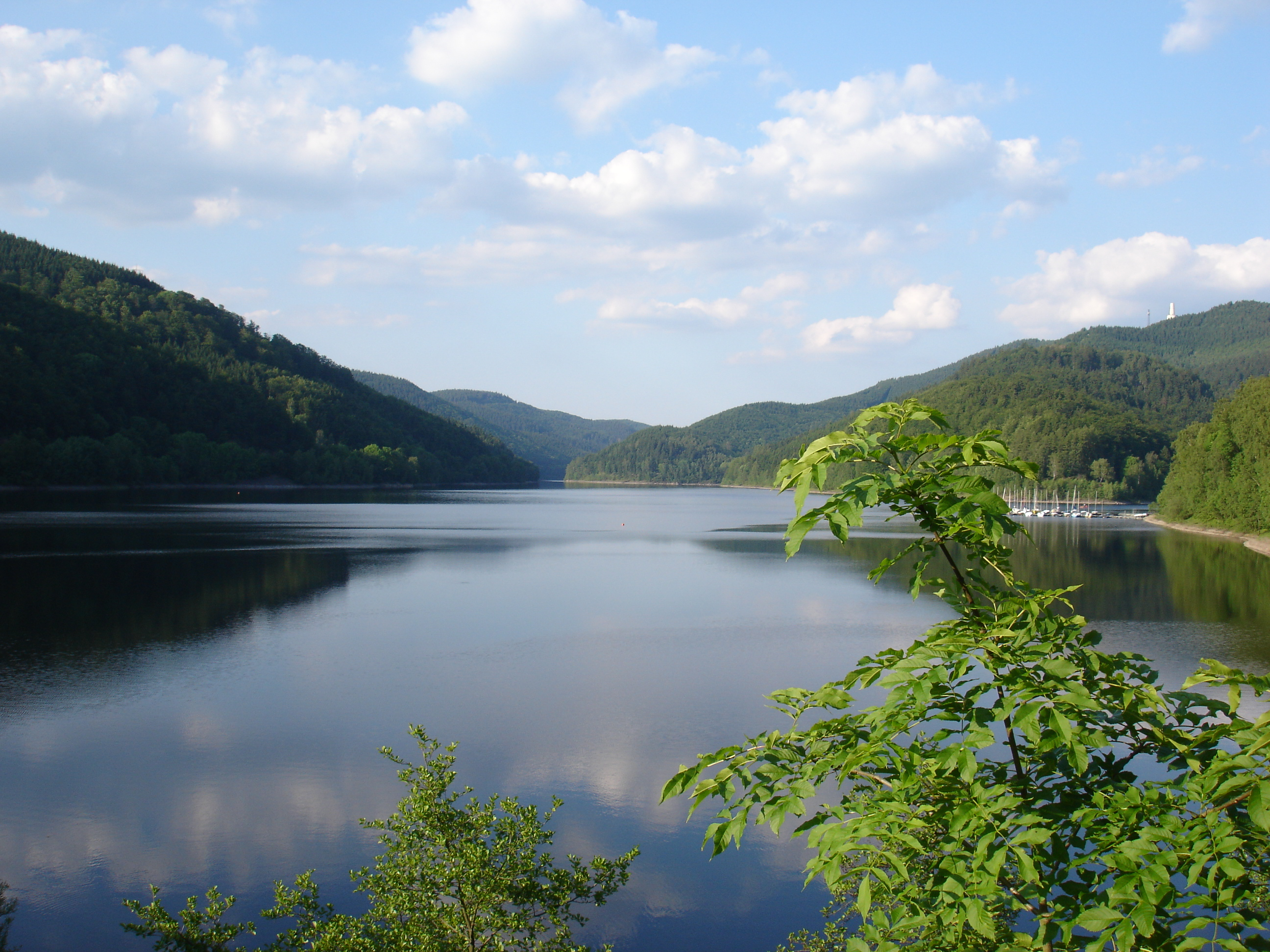 The Oder Reservoir seen from the dam, Harz mountains, Germany